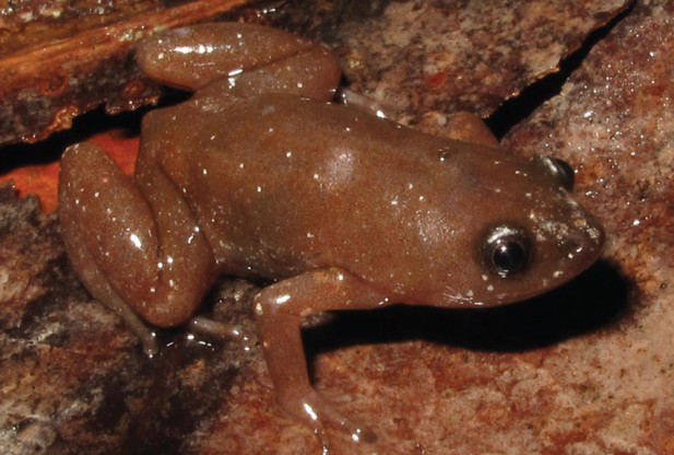 Male Chiasmocleis quilombola from the Conceição da Barra, Espírito Santo.